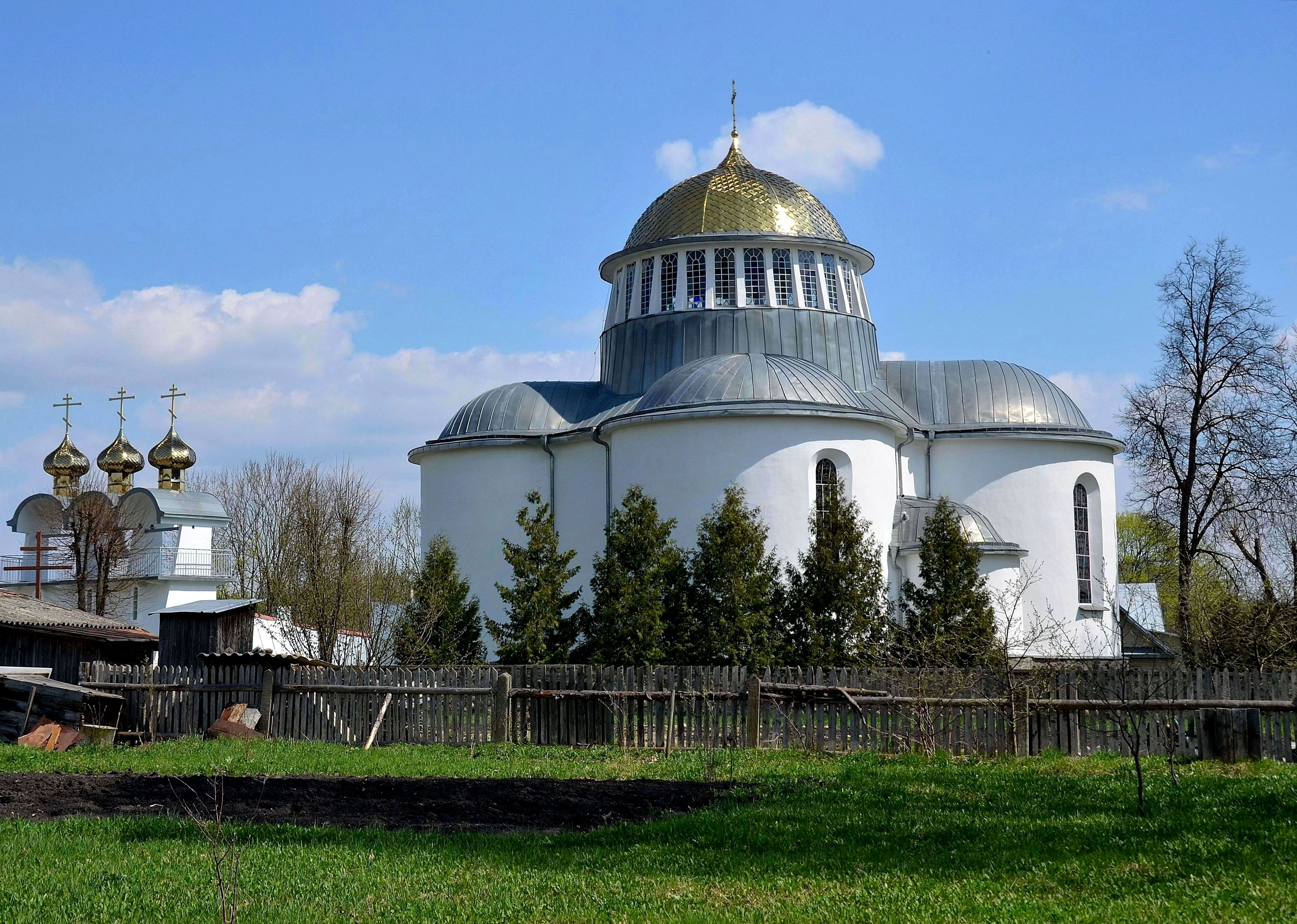 Feast of the Cross Orthodox church in Jałówka